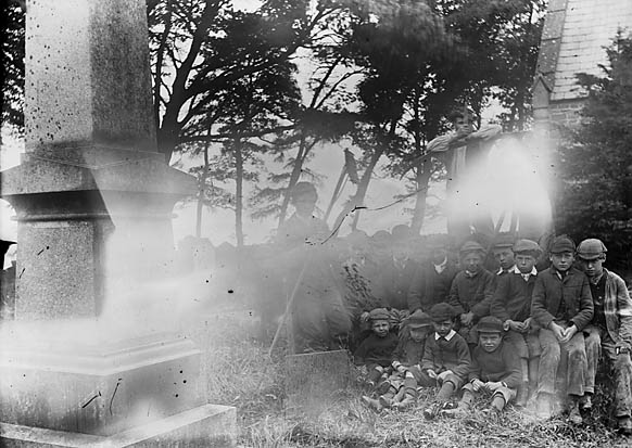 1 negative : glass, dry plate, b&w ; 12 x 16.5 cm.